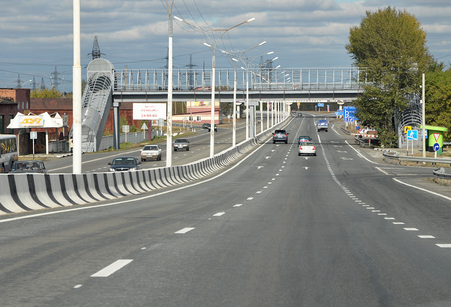 M52 Road near Barnaul